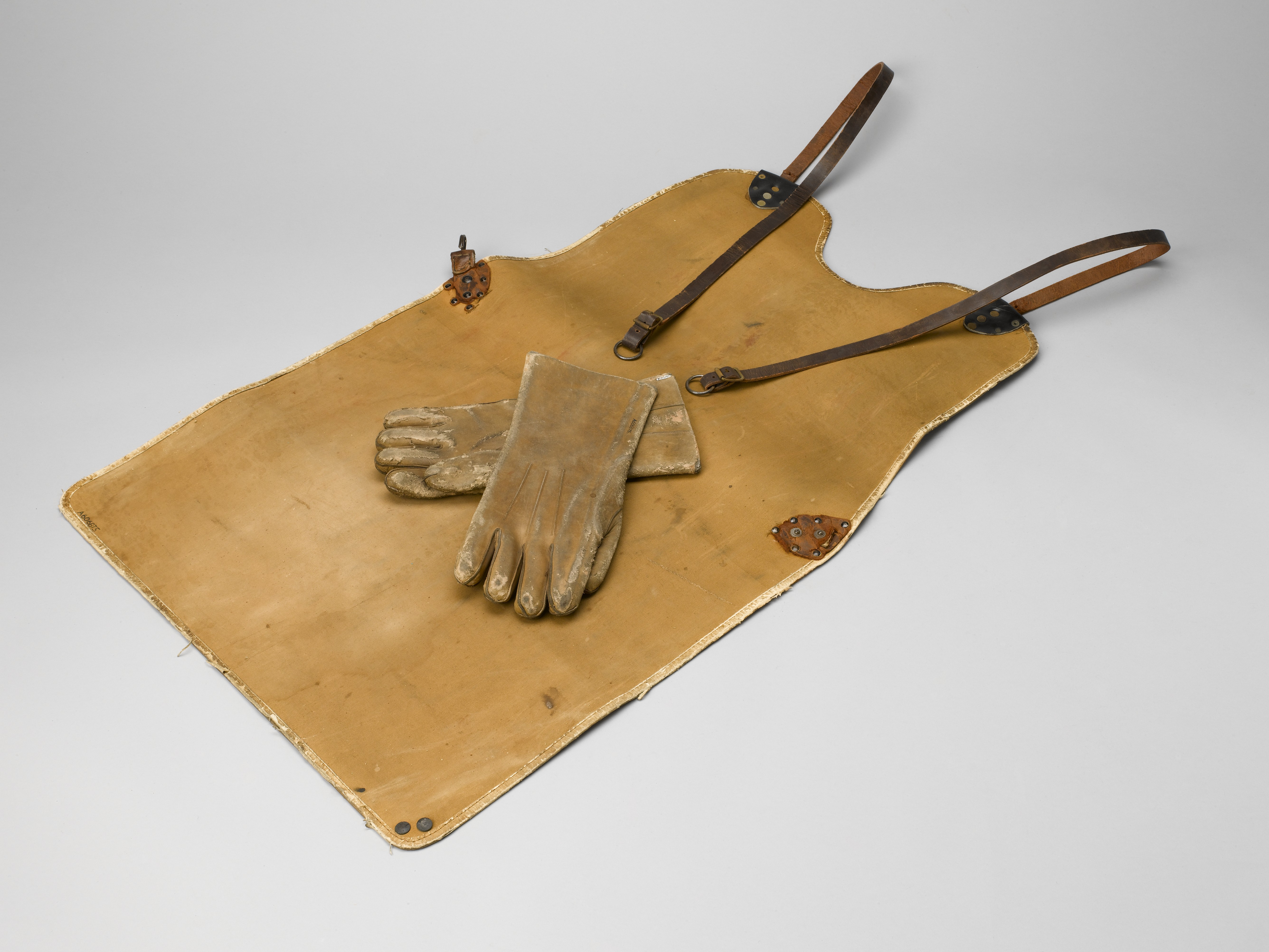 A layer of lead is incorporated into this apron. It helps protect the wearer, an X-ray technician, from harmful radiation. It became standard protective equipment. The apron is made of cloth. With the lead, it weighs around five kilos. It is seen with a pair of protective gloves (A606876). These are also lead lined. X-rays were discovered in 1895 by Wilhelm Conrad Röntgen (1845-1923). X-rays were so-called because the nature of the newly discovered rays was unknown. The first committee to investigate possible ill effects of X-rays was formed three years later in 1898. Reports of burns and dermatitis due to the rays were frequent by this date. maker: Unknown maker Place made: Unknown place Wellcome Images Keywords: apron; Radiology; radiation protection equipment